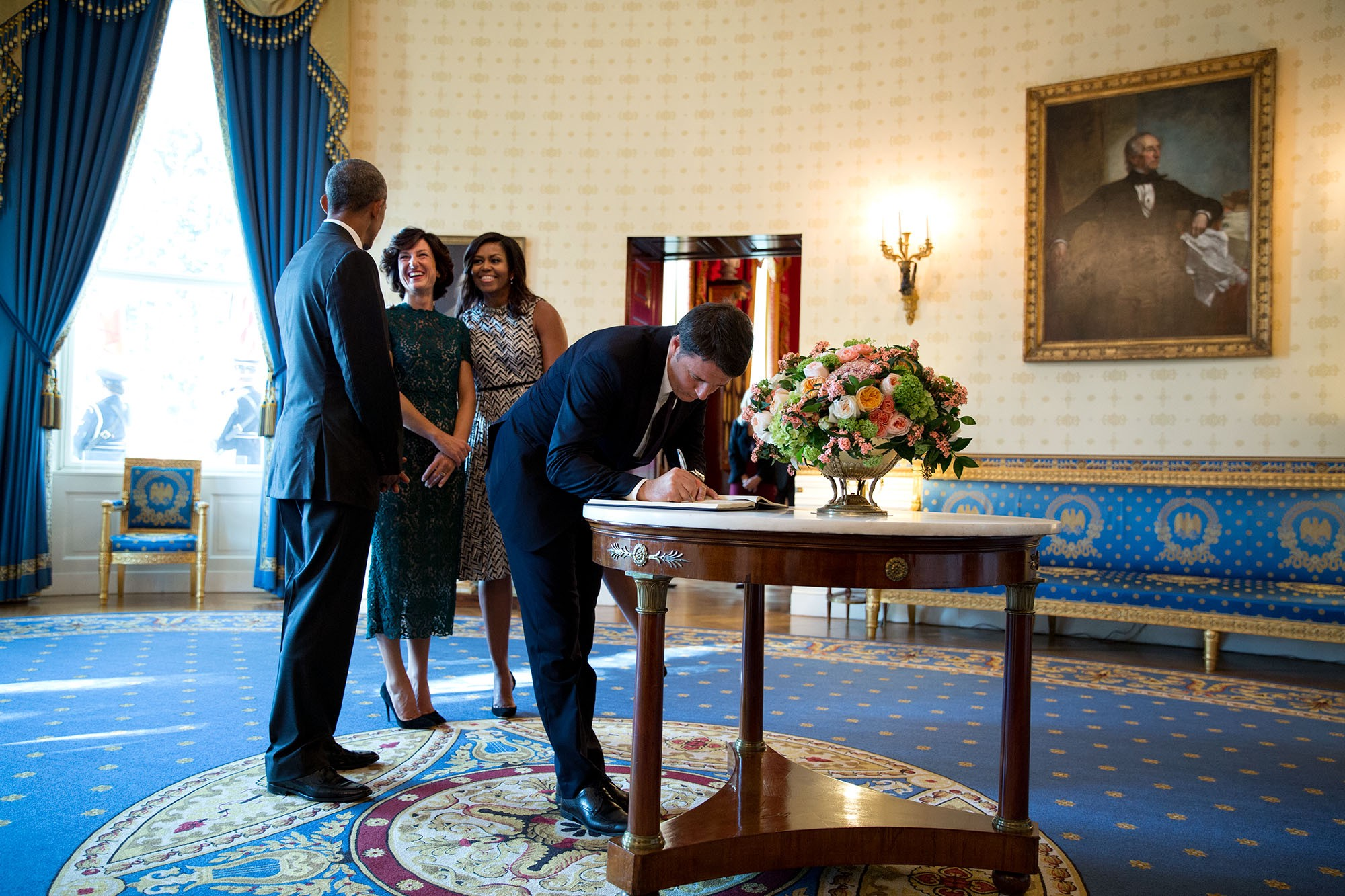 Barack Obama, Michelle Obama, Matteo Renzi and Agnese Landini